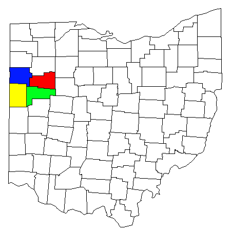 Component parts of the Lima-Van Wert-Celina, Ohio Combined Statistical Area. Red – Lima Metropolitan Statistical Area (Allen County) Blue – Van Wert Micropolitan Statistical Area (Van Wert County) Yellow – Celina Micropolitan Statistical Area (Mercer County) Light Green – Wapakoneta Micropolitan Statistical Area (Auglaize County)